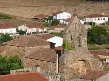 Villanueva de las Peras. Church.